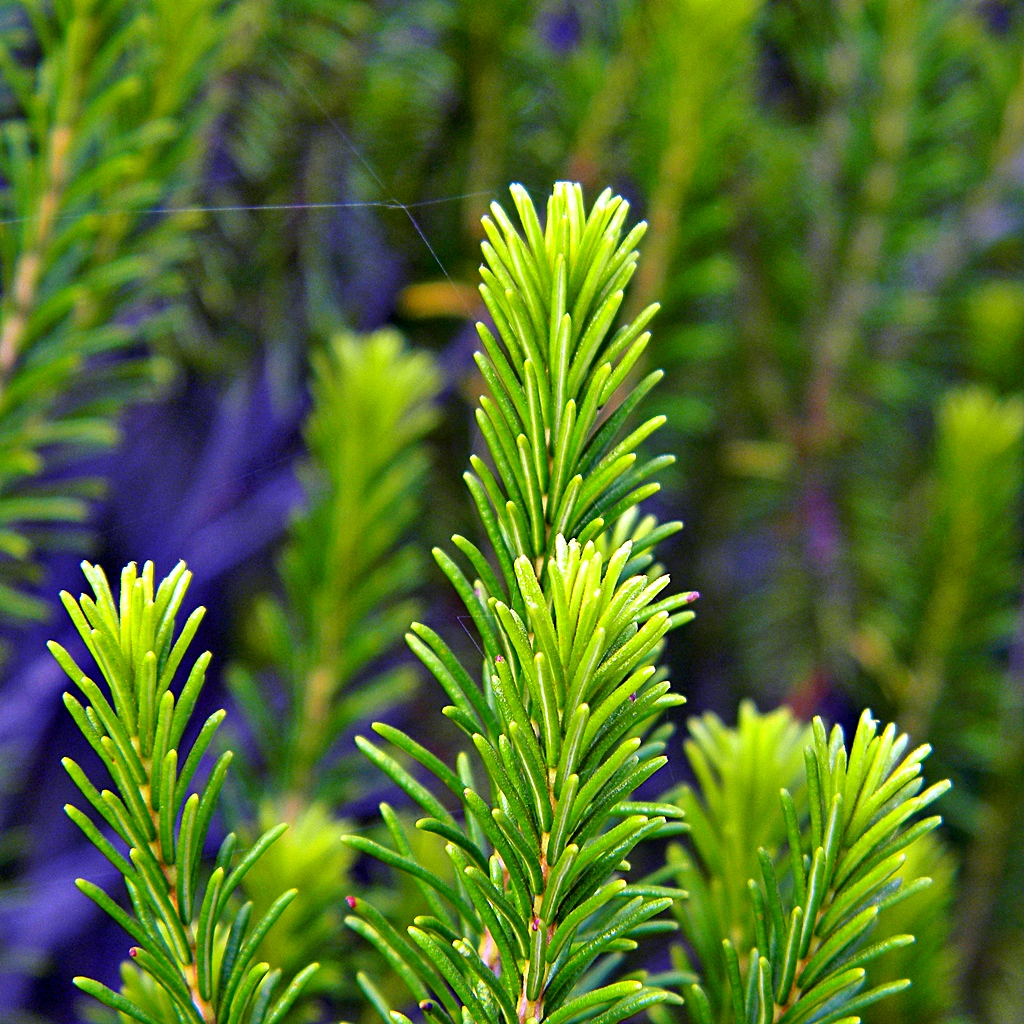 The wonderful Scrub Rosemary (Ceratiola ericoides) is a major component of the scrub at Juno Dunes (above), Jupiter Ridge and the higher portions of Jonathan Dickinson State Park. It has been one of my favorite plants since I was a toddler :-) This "Rosemary" is not related to the culinary variety.